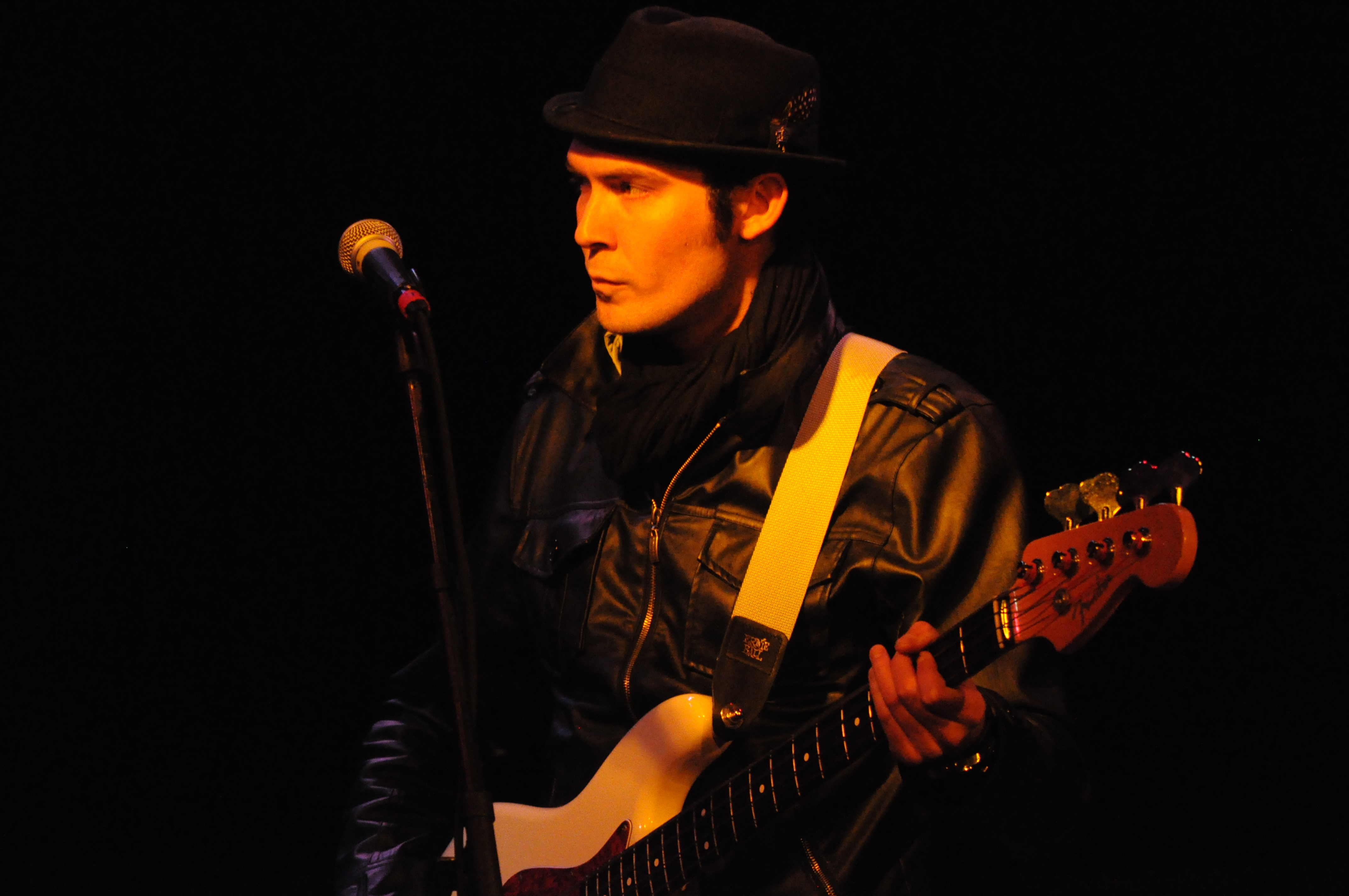 Shane Tutmarc performing as part of a tribute to Townes van Zandt on the 67th anniversary of his birth. Tractor Tavern, Ballard, Seattle, Washington.